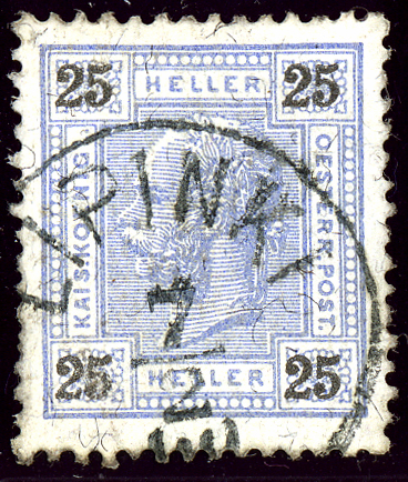 Austrian KK 25 heller stamp, issue 1899, ultramarin, cancelled in 1900 at LIPINKI (Bezirk Gorlice, Galicia, Poland)